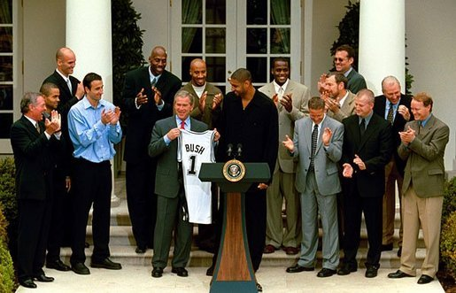 The San Antonio Spurs are greeted by President Bush during their visit to the White House.